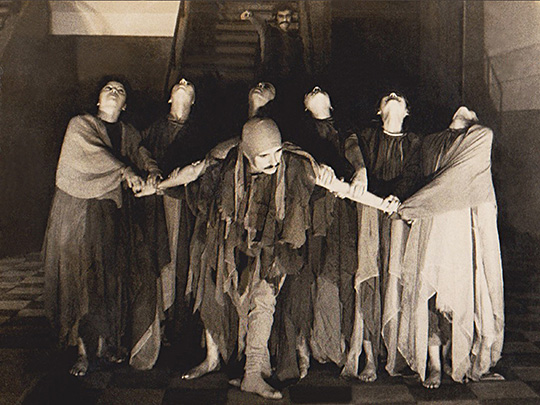 "Escorial", encenada no salão do Palácio Barbosa Lima: o grupo ainda não possuía um lugar próprio para as apresentações.